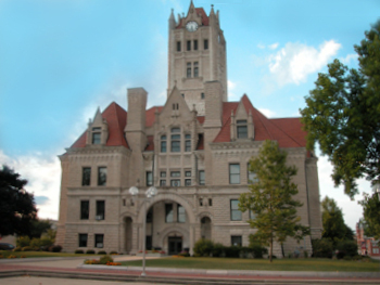 The back of the Hancock County Courthouse